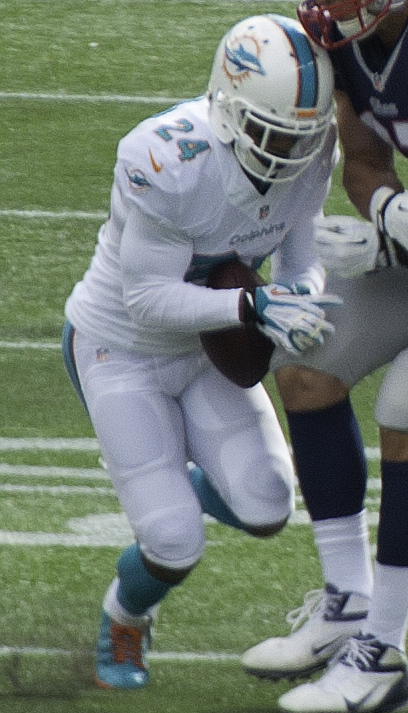 Dimitri Patterson intercepts a Tom Brady pass